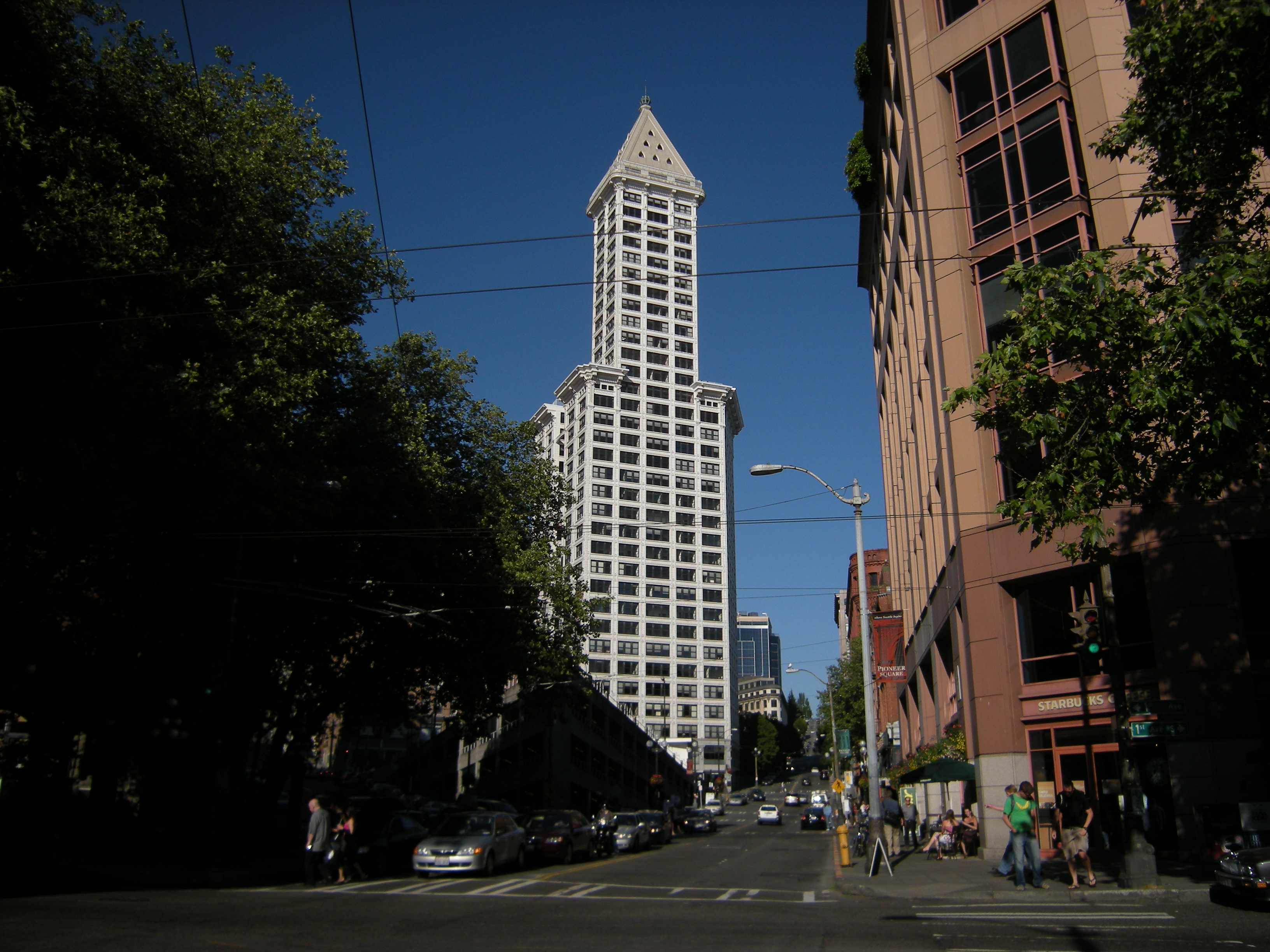 Looking east on Yesler Way from the corner of First and Yesler, Pioneer Square neighborhood, Seattle, Washington, USA. The prominent building here is the Smith Tower. The "sinking ship garage" in the foreground at left is on the site of the former Hotel Seattle.